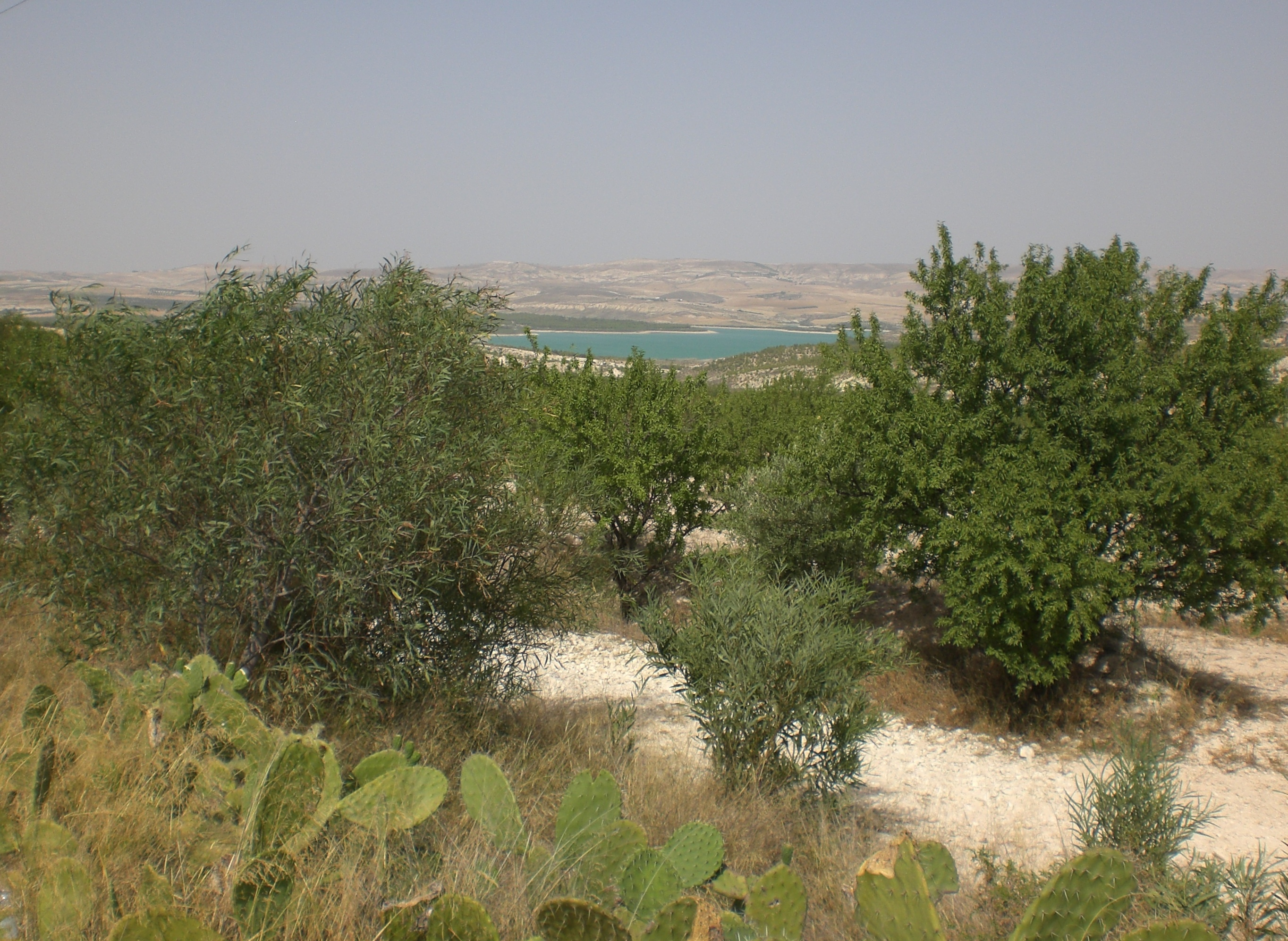 Siliana Barrage